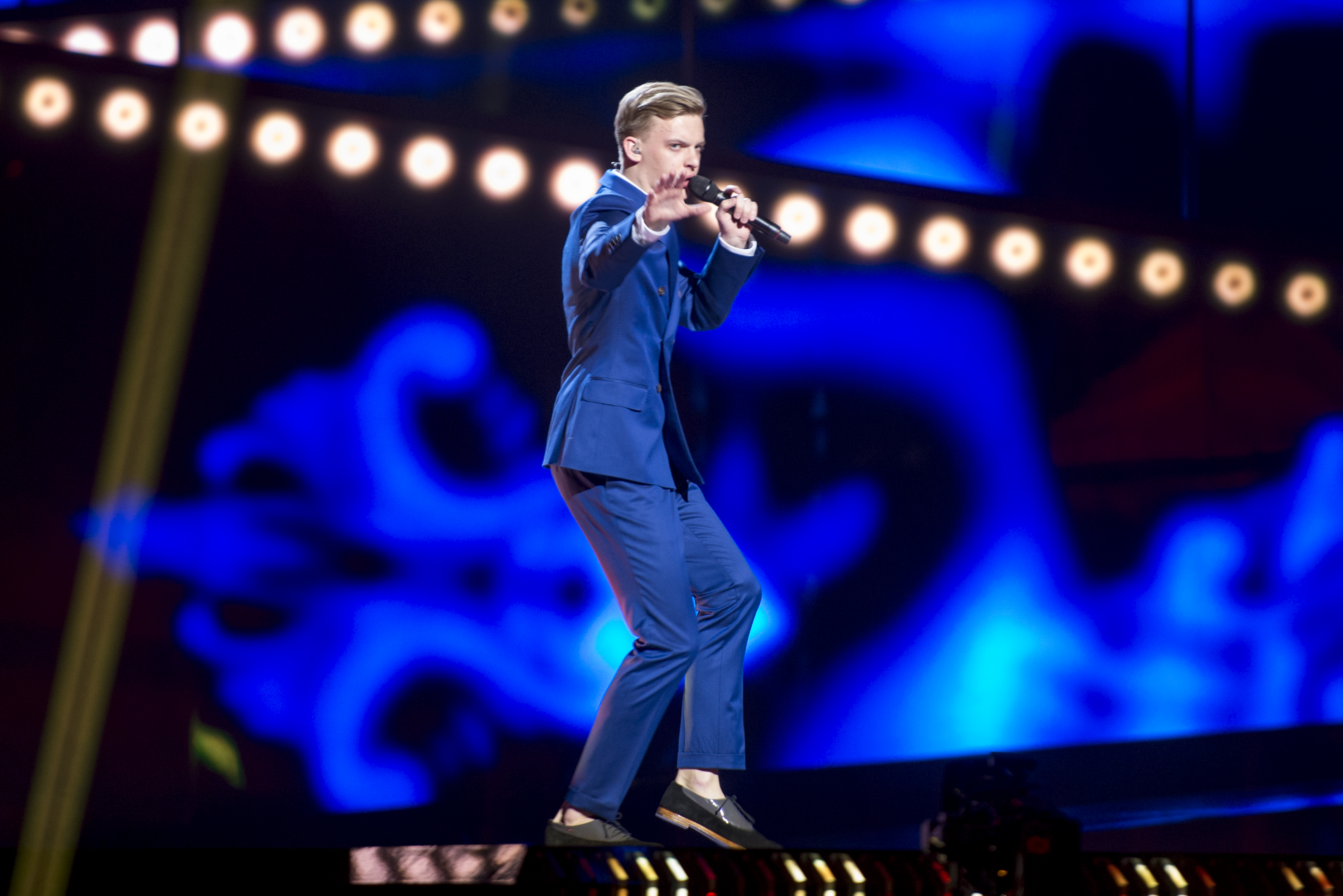 Jüri Pootsmann representing Estonia with the song "Play" during a rehearsal before the first semi final of the Eurovision Song Contest 2016 in Stockholm. (Help translate this text)